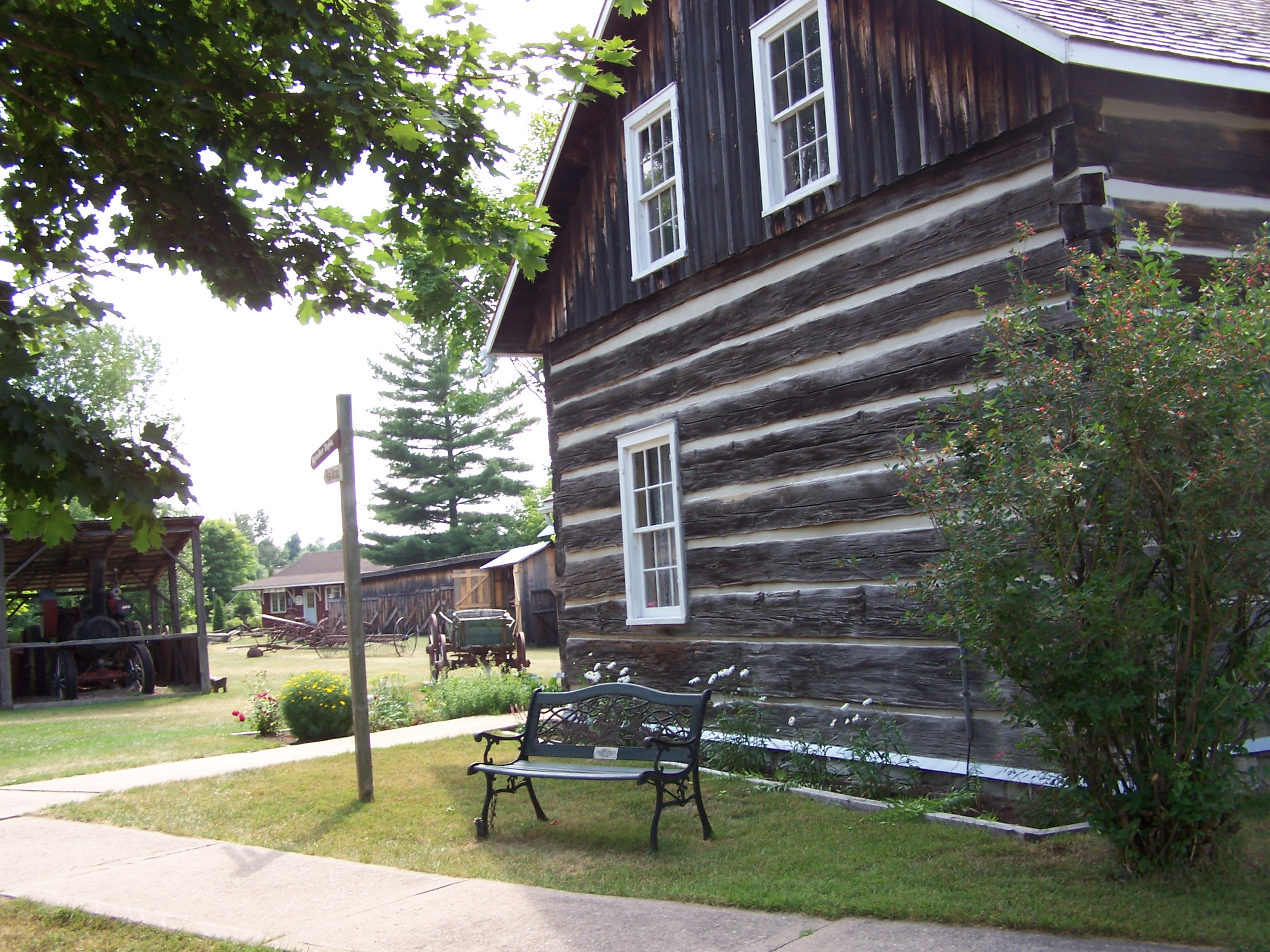 This image depicts the 1870's pioneer home at the Champlain Trail Pioneer Village in Pembroke. It was taken in 2007.